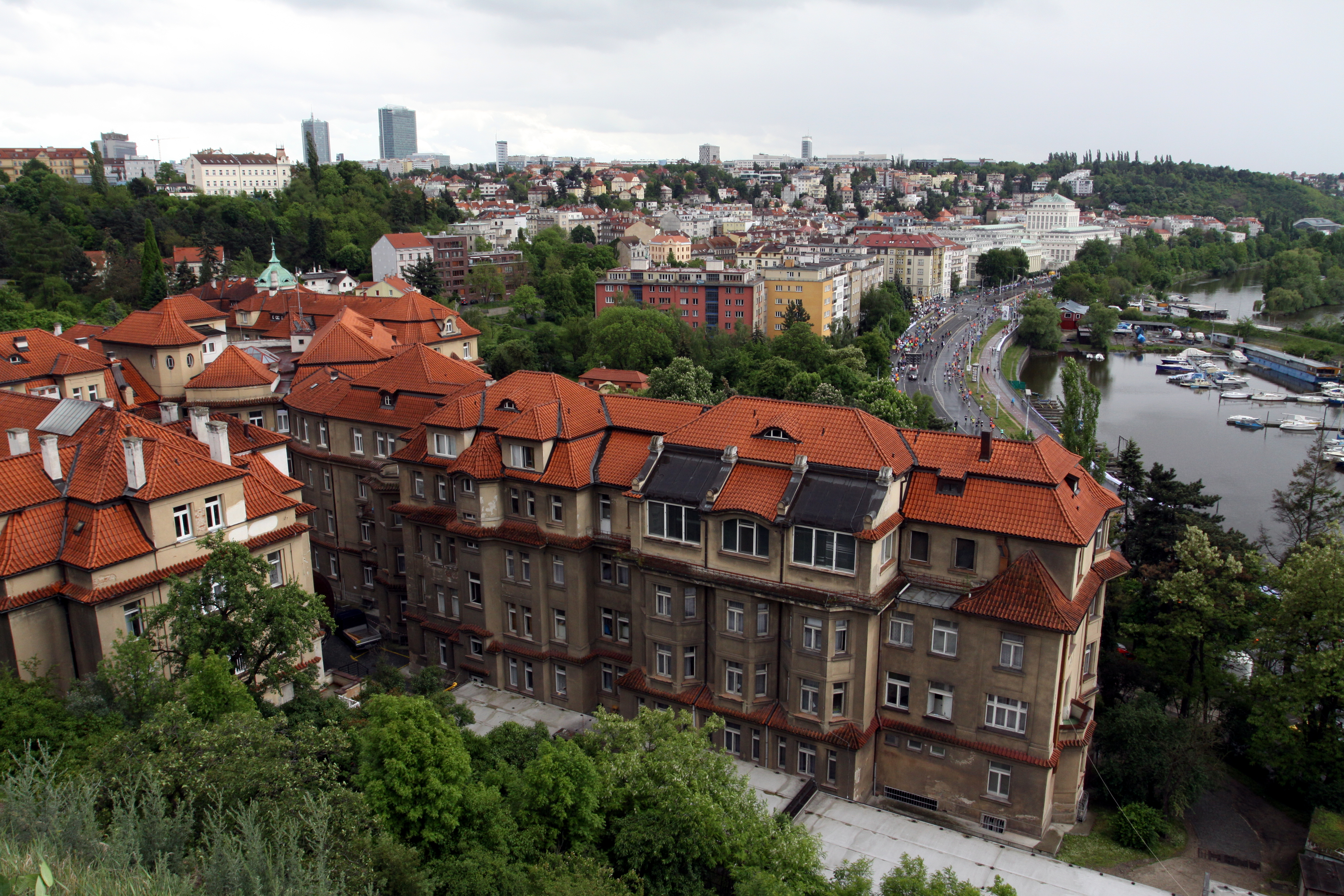 Maternal hospital in Podolí from Vyšehrad in Prague, Czech Republic - Google Maps - Google Earth